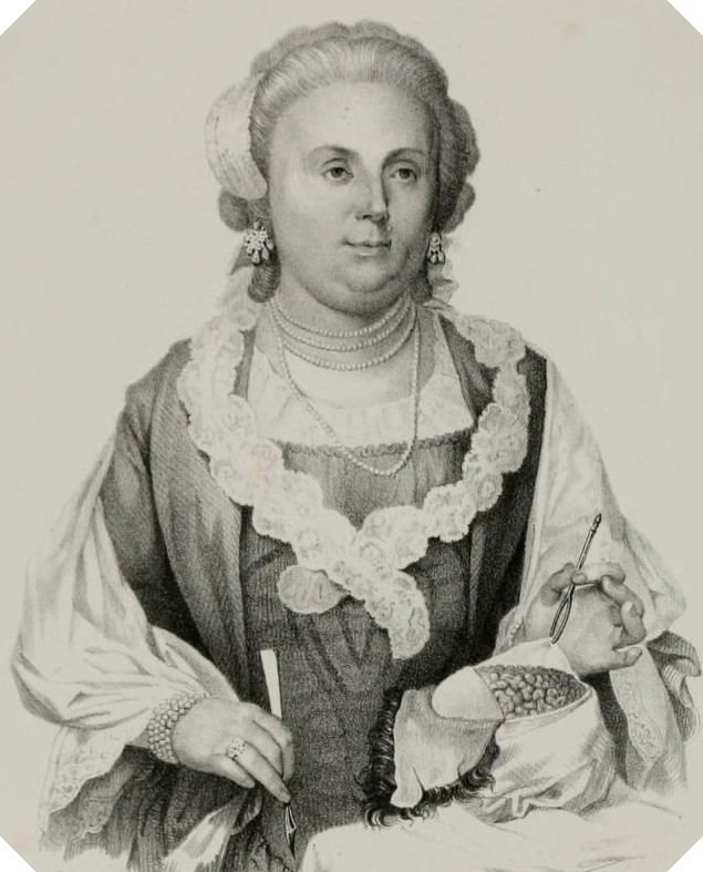 Anna Morandi Manzolini (1714-1774), italian anatomist and sculptor, from a drawing of Cesare Bettini.